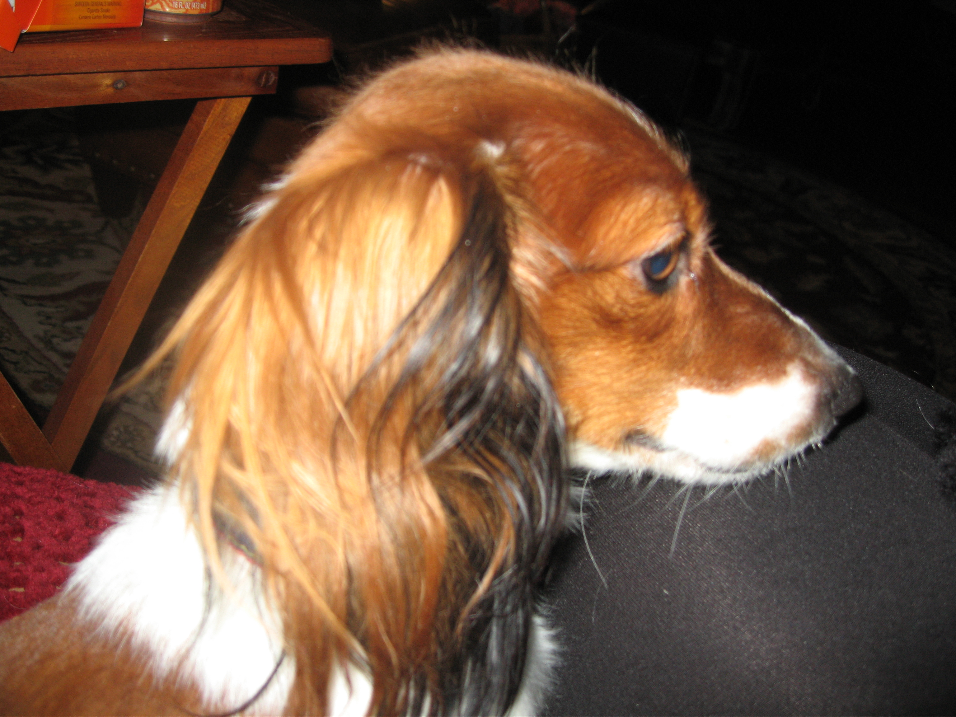 Dachshund miniature longhair color: red piebald name: Roger